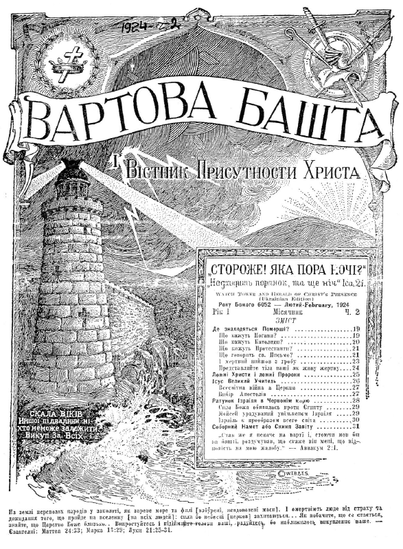 Watch Tower, №2, 1924, cover, ukr